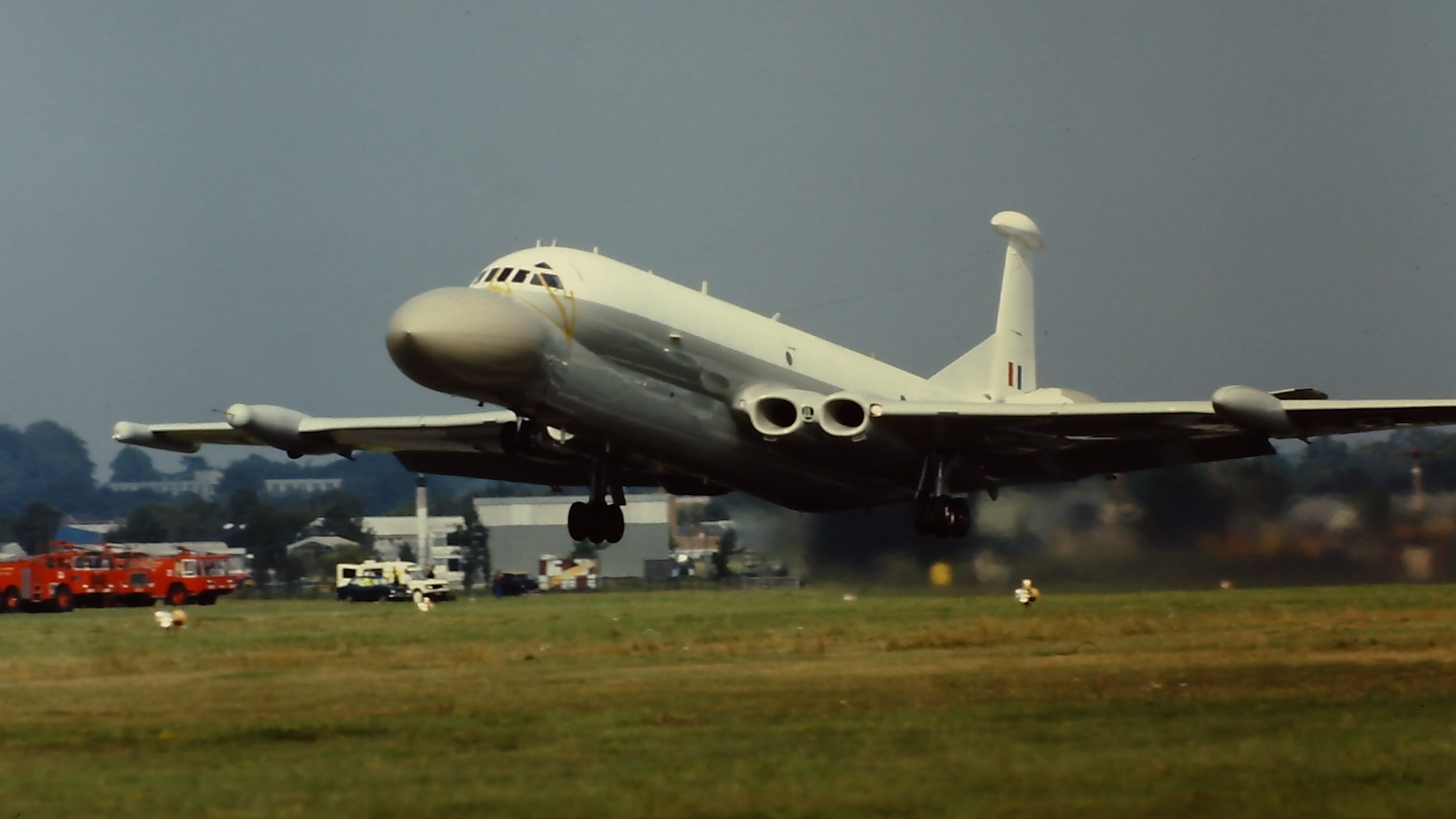 Hawker Siddeley Nimrod AEW3 serial number XZ286 at the 1980 Farnborough Air Show